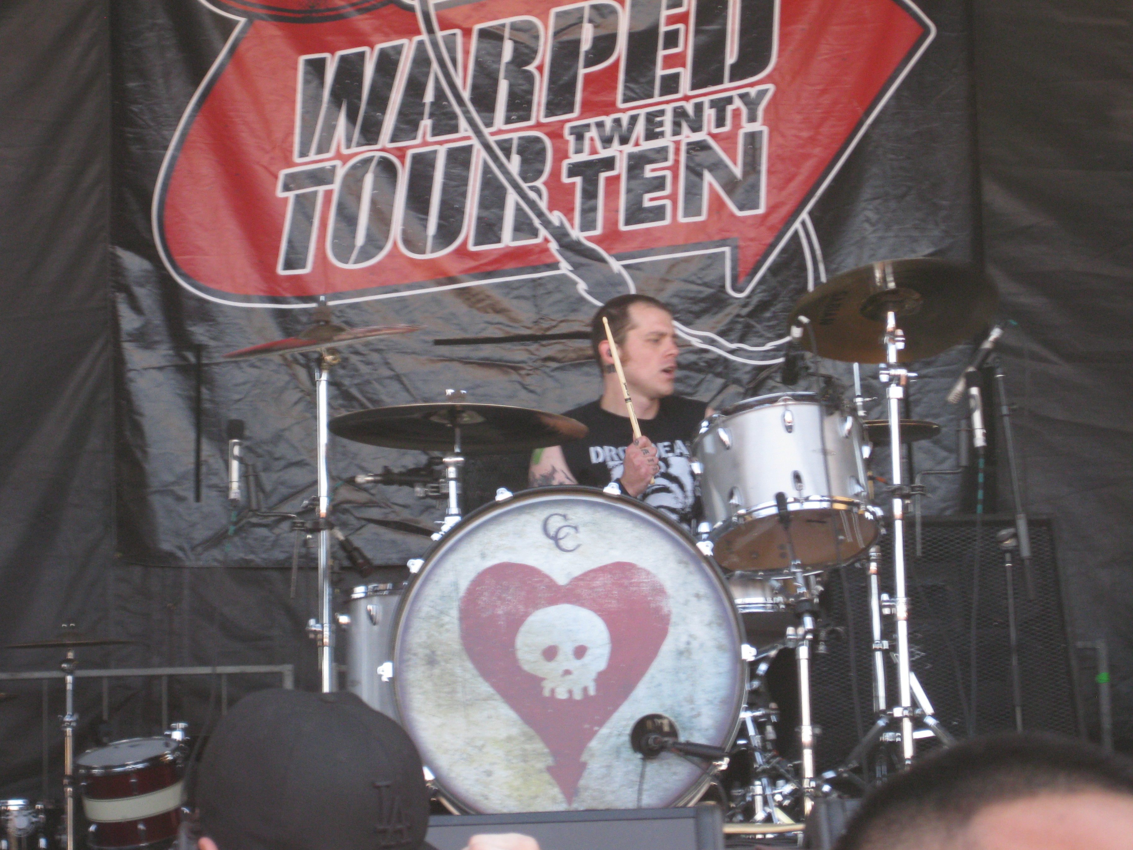 Derek Grant of Alkaline Trio performing on the Warped Tour at the Cricket Wireless Amphitheatre in Chula Vista, California on August 10, 2010.